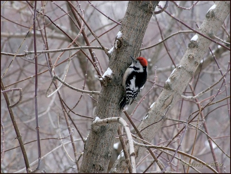 Middle Spotted Woodpecker - Dendrocopos medius Note: the male White-backed Woodpecker - Dendrocopos leucotos -(Белоспинный дятел) and The Lesser Spotted Woodpecker Dendrocopos (Picoides) minor (Малый пестрый дятел) - are look very similar. Russian winter birds